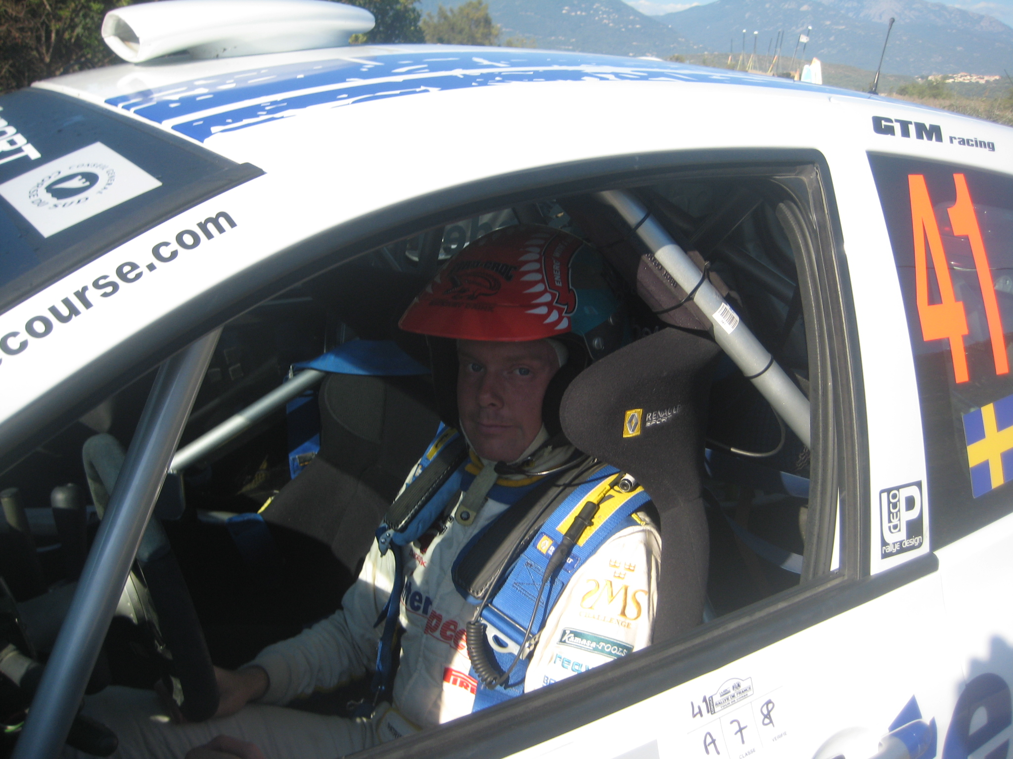 2008 Rallye de France, Day 1, Patrik Sandell - Renault Clio R3